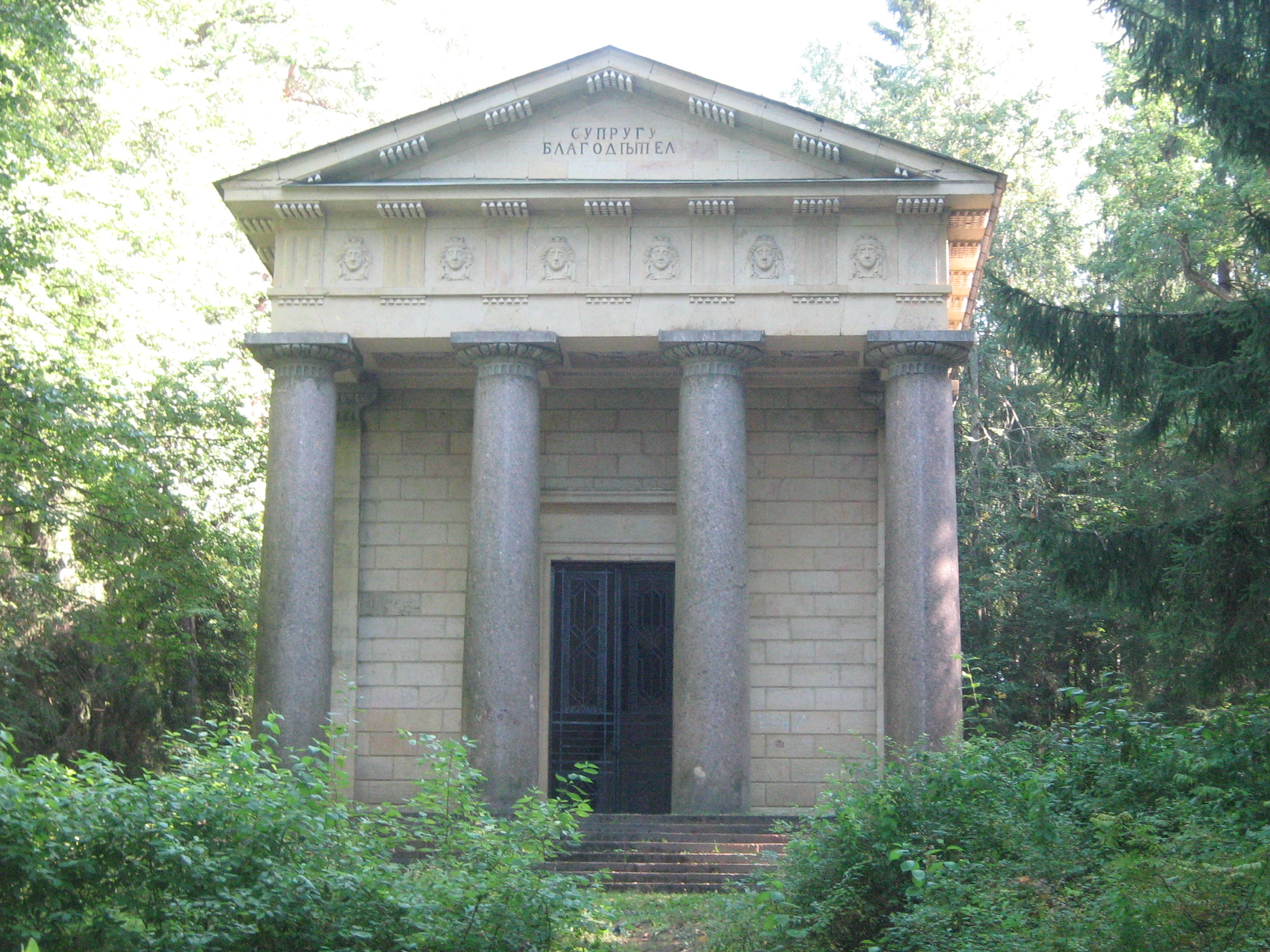 Pavlovsk (Russia)